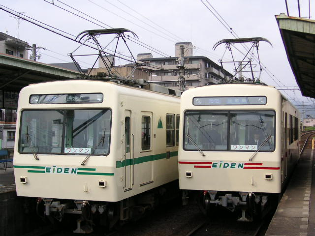 Eizan Electric Railway series Deo 700 is new livery at Takaragaike station